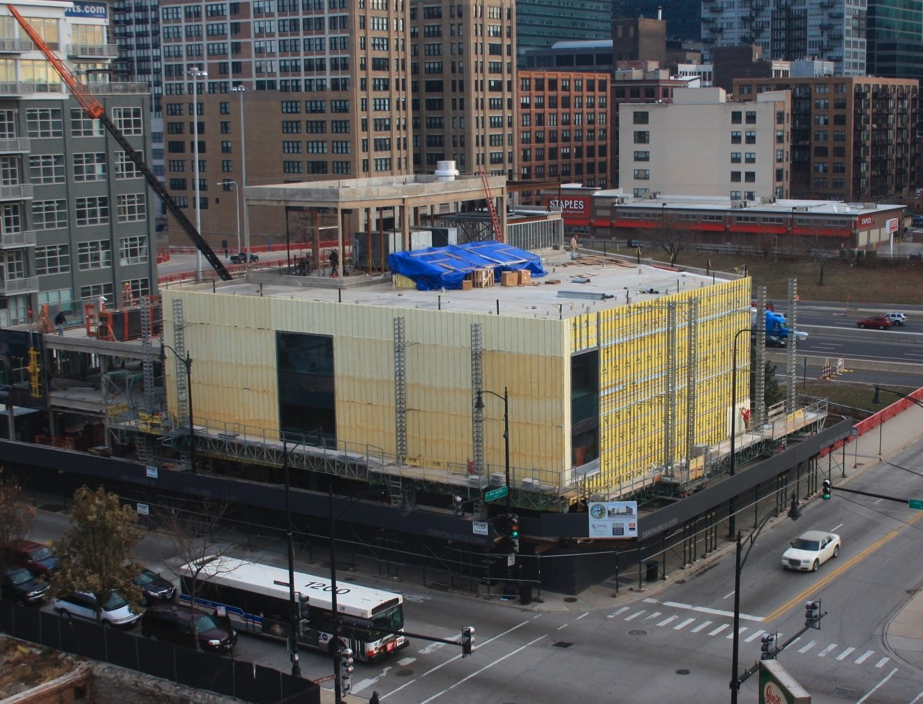 An up-to-date photograph of the construction progress on the new facilities of the National Hellenic Museum